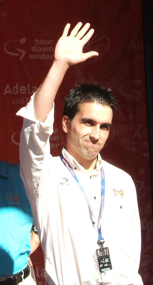 Named cyclist at the en:2009 Tour Down Under team presentation